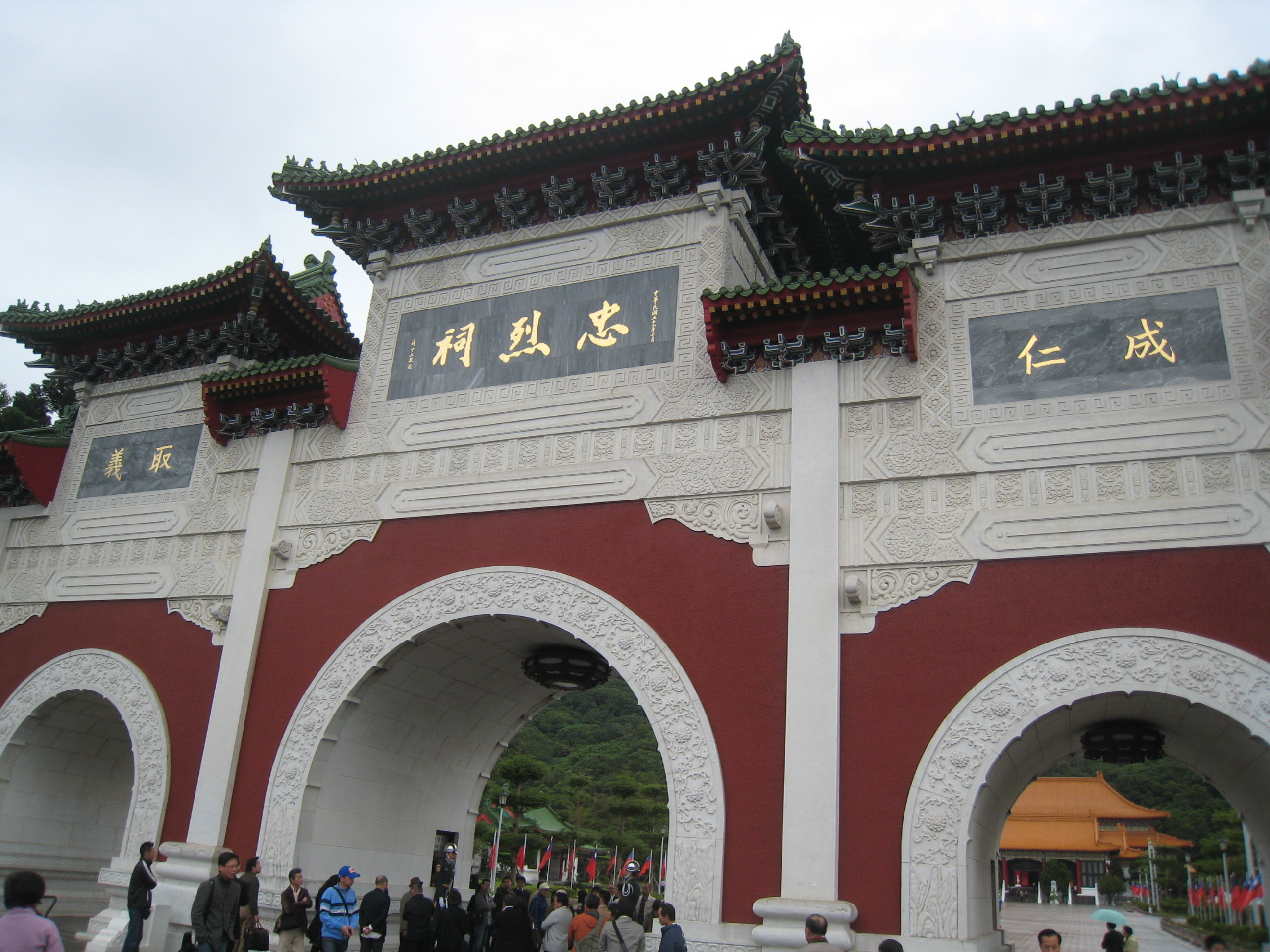 Paifang of National Revolution Martyr's shrine in Taiwan